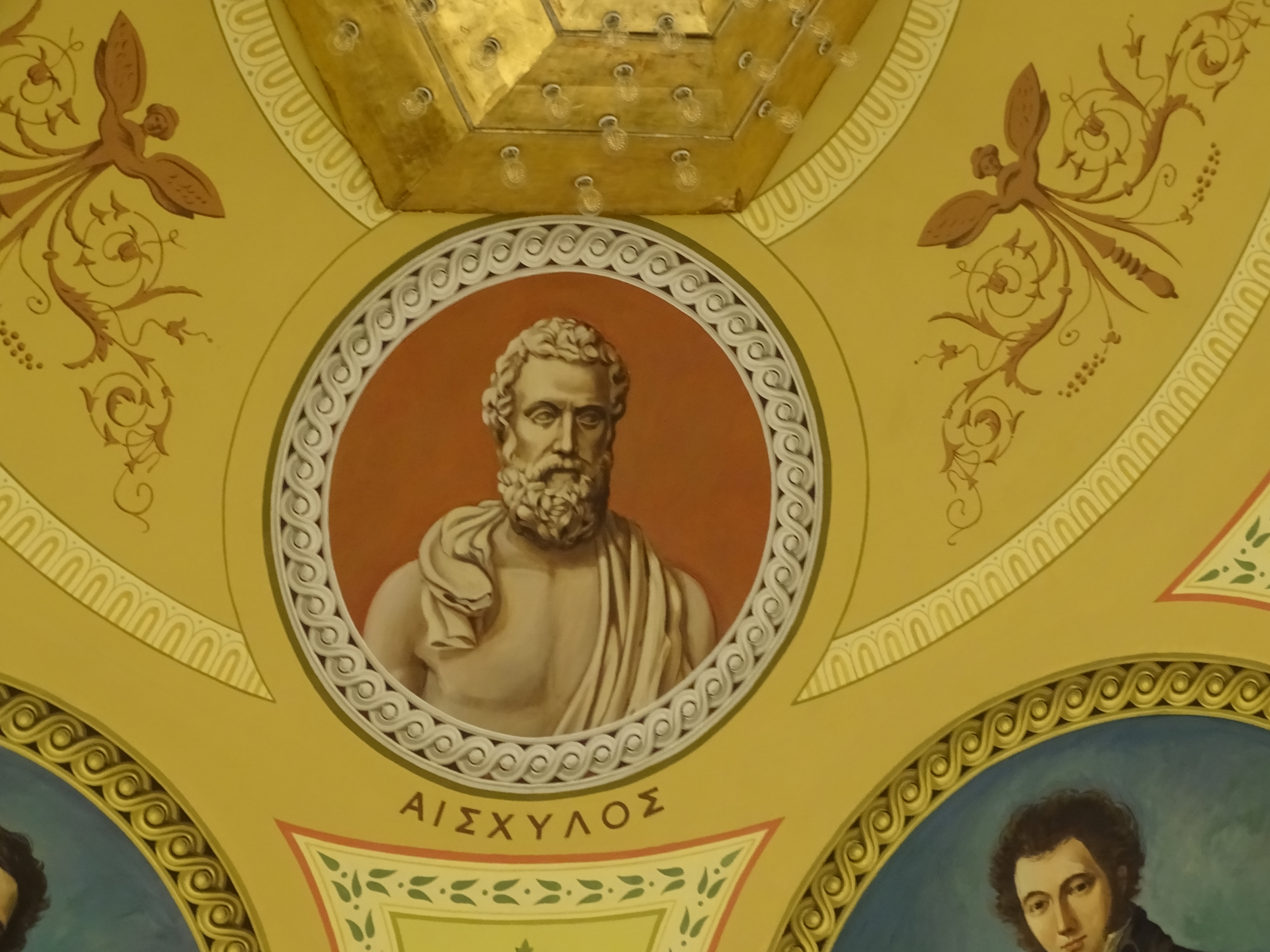 Aeschylus at the Ceiling of Apollo Theatre, Syros